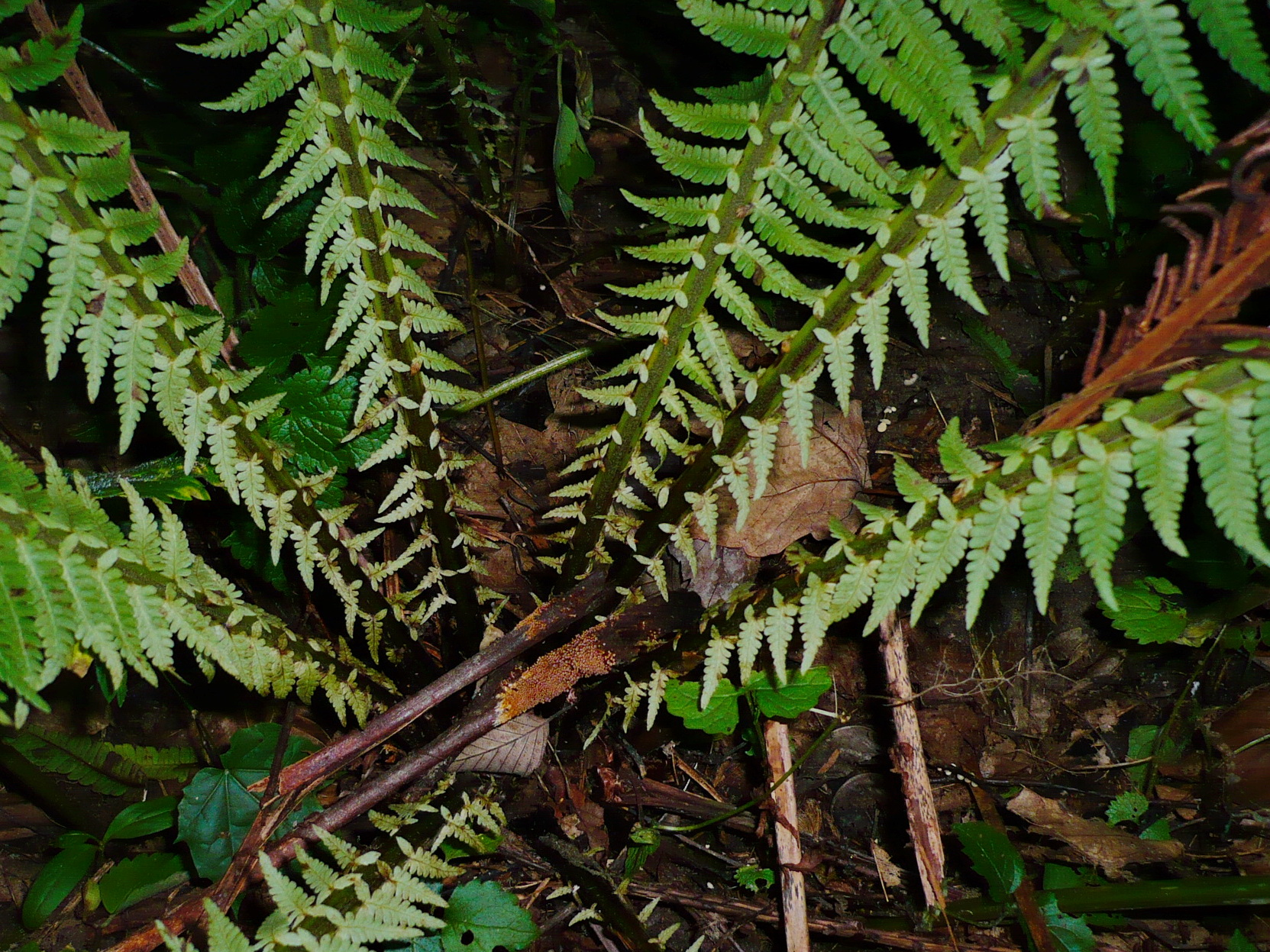 Woldmaria filicina (Peck) Knudsen Image location: Unterbromberg, Bromberg, Bezirk Wiener Neustadt, Lower Austria, Austria also in WU Recognized by sight: on ostrich fern For more information about this, see the observation page at Mushroom Observer.